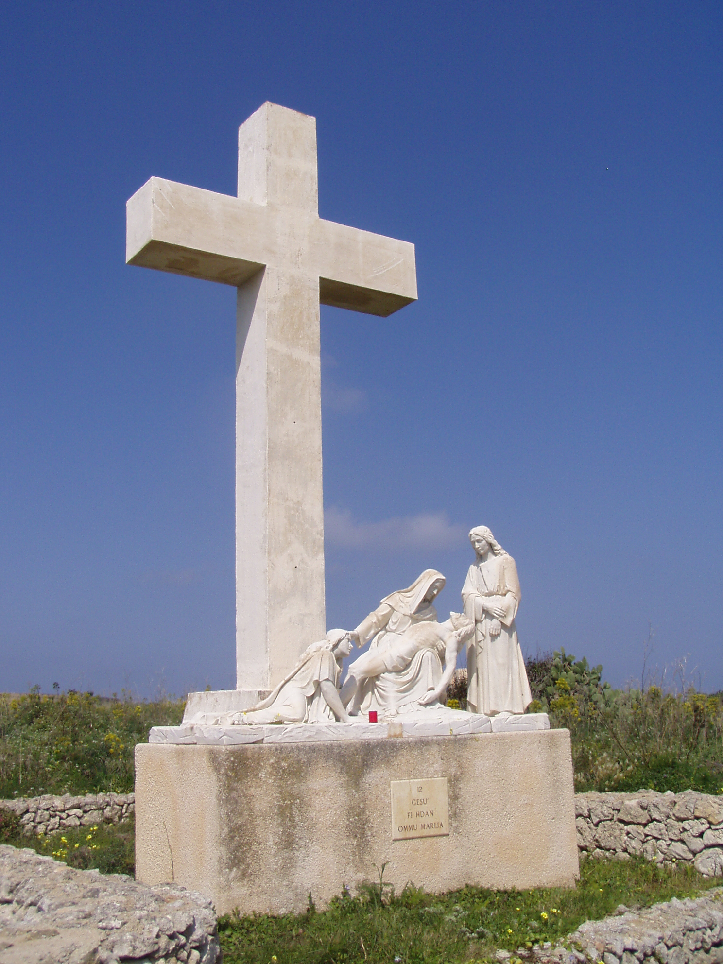 Republic of Malta, Gozo, Ta’ Ghammar, Via Crucis, Station 12